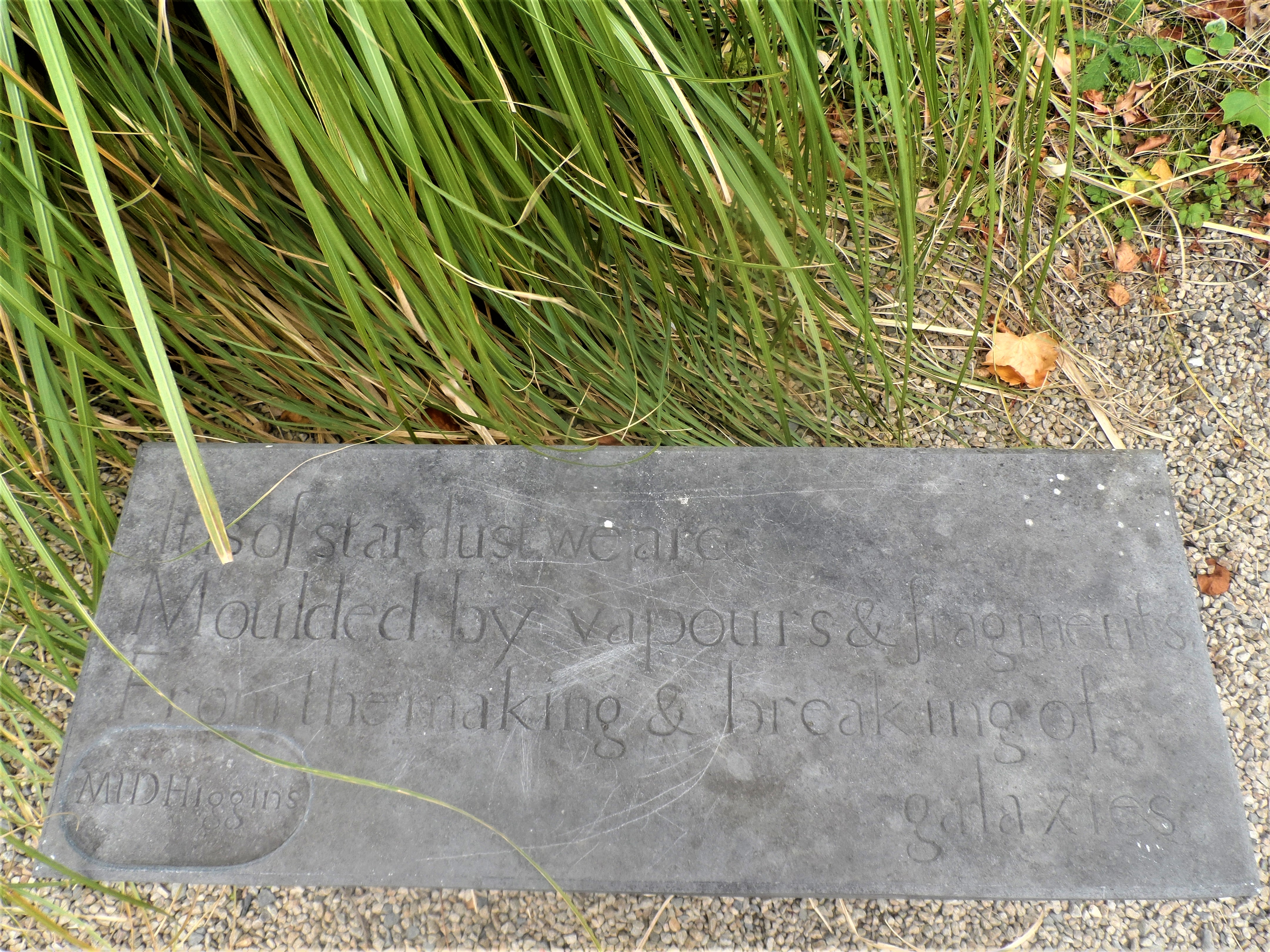 MD Higgins poem